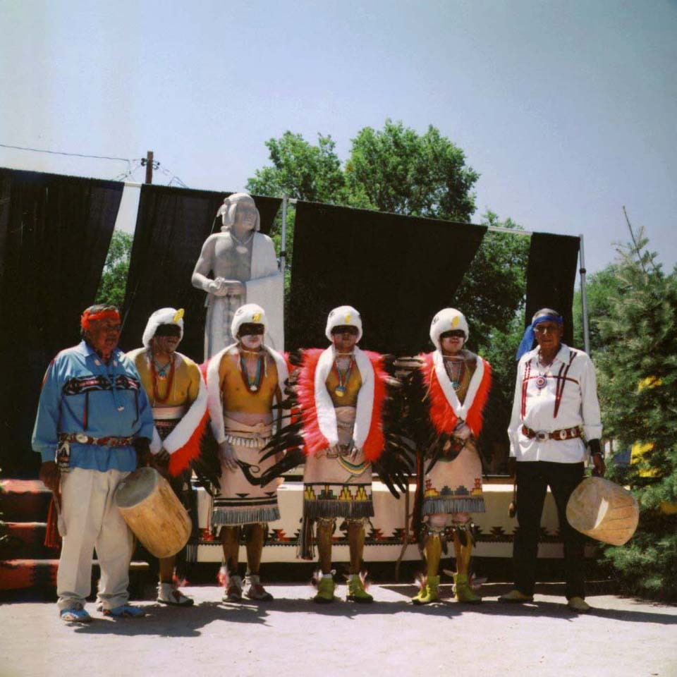 Statue of Popé, Ohkay Owingeh, May 2005.